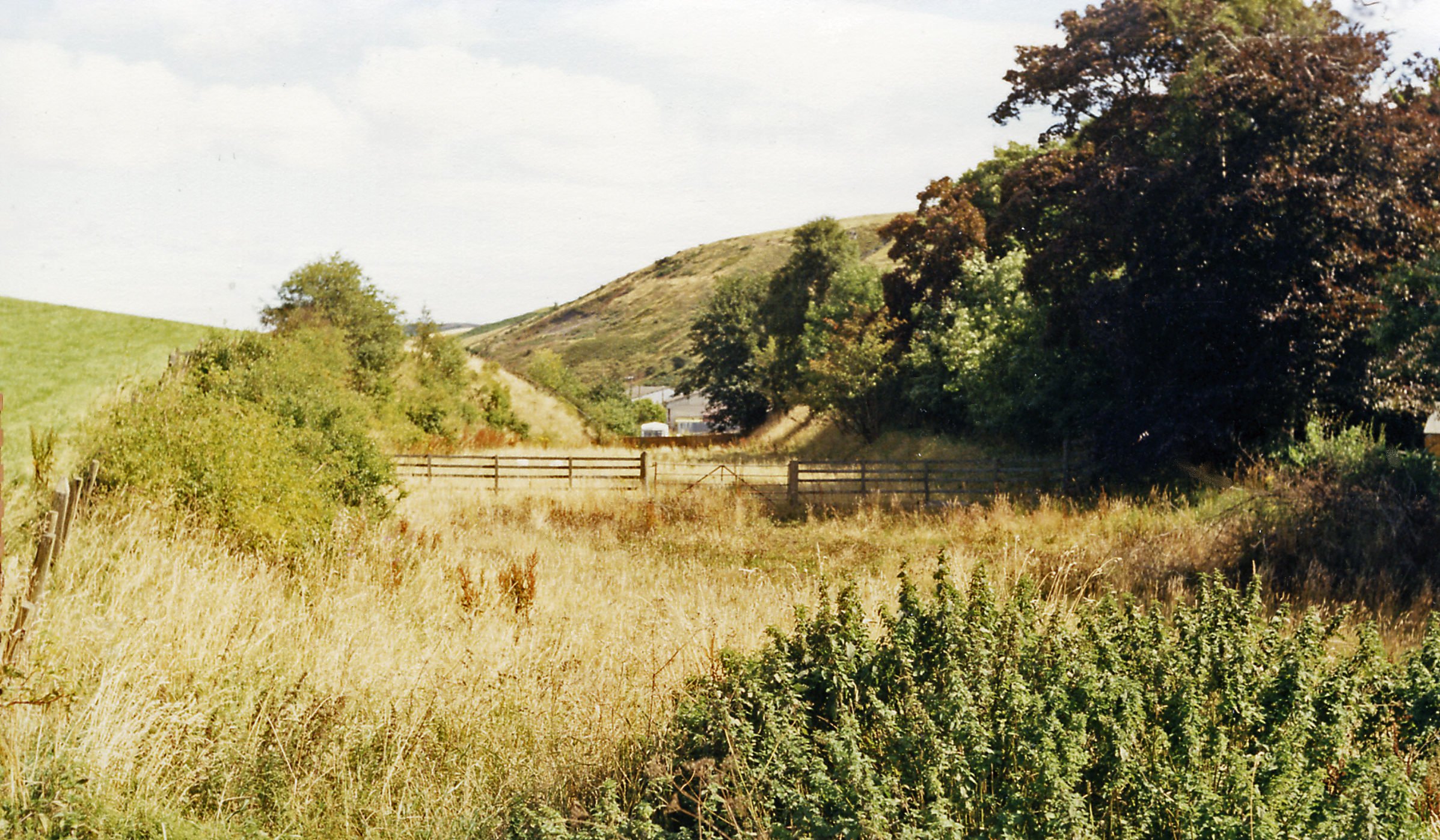 Site of Clovenfords station. View NE, towards Galashiels: ex-NBR Edinburgh - Peebles - Galashiels line; the line and station were closed from 5/2/62 and nothing was to be seen in 1988. To the right is Meigle Hill (1,388 ft.).